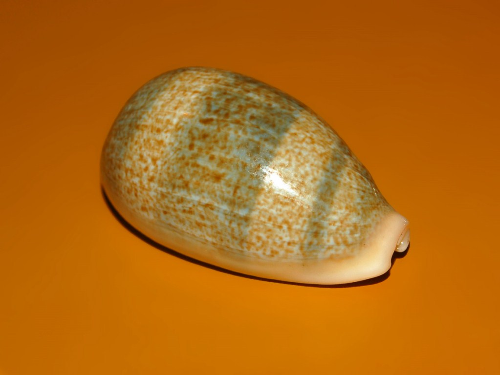 Erronea errones